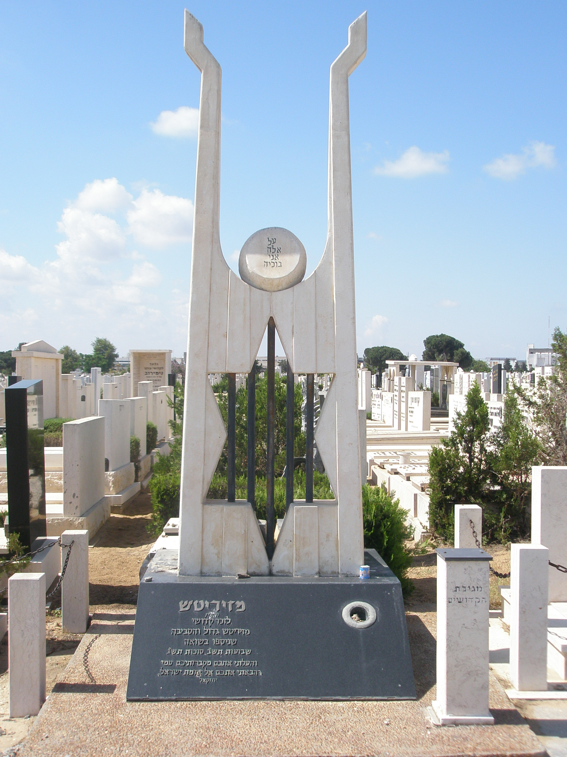 Mezhirichi memorial at Holon Cemetery